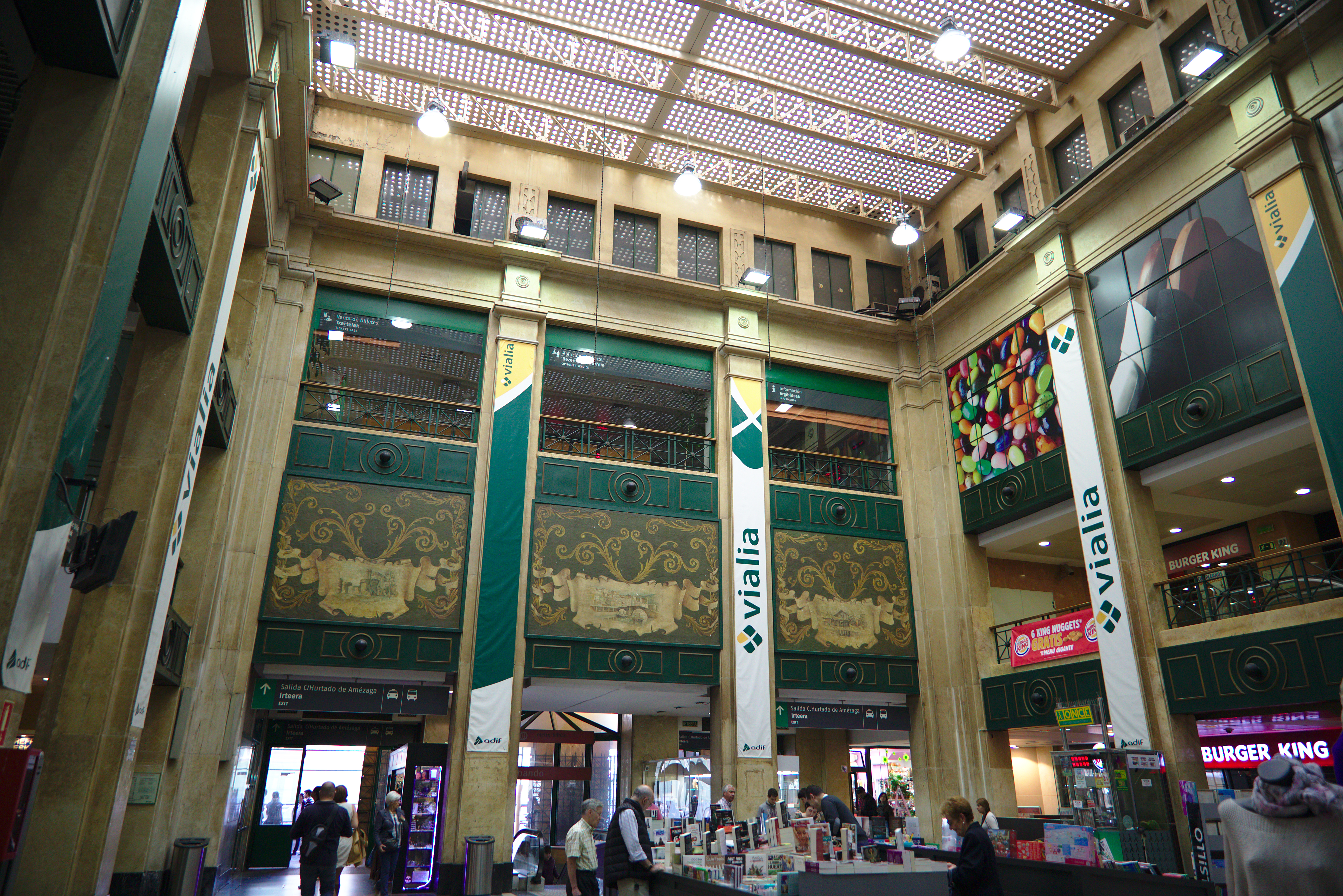 Abando Station inside